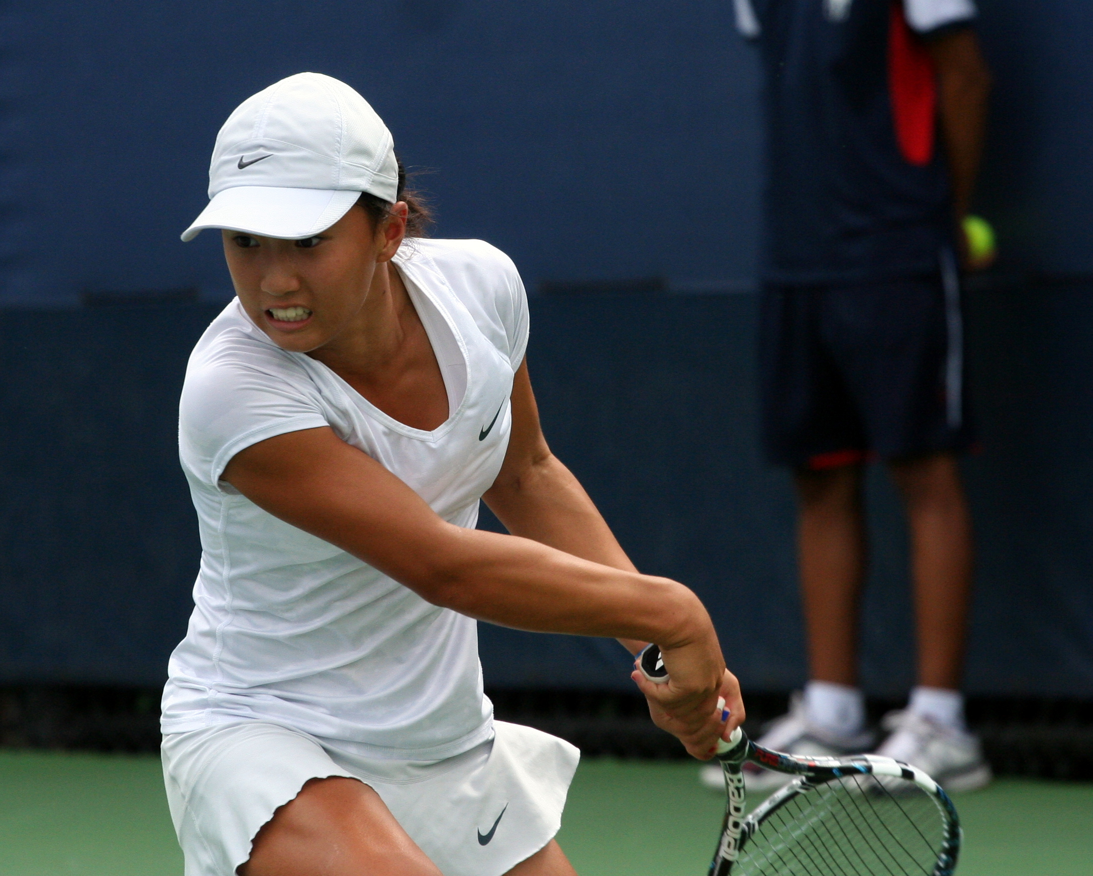 U.S. Open Juniors Tuesday, Sept. 3, 2013